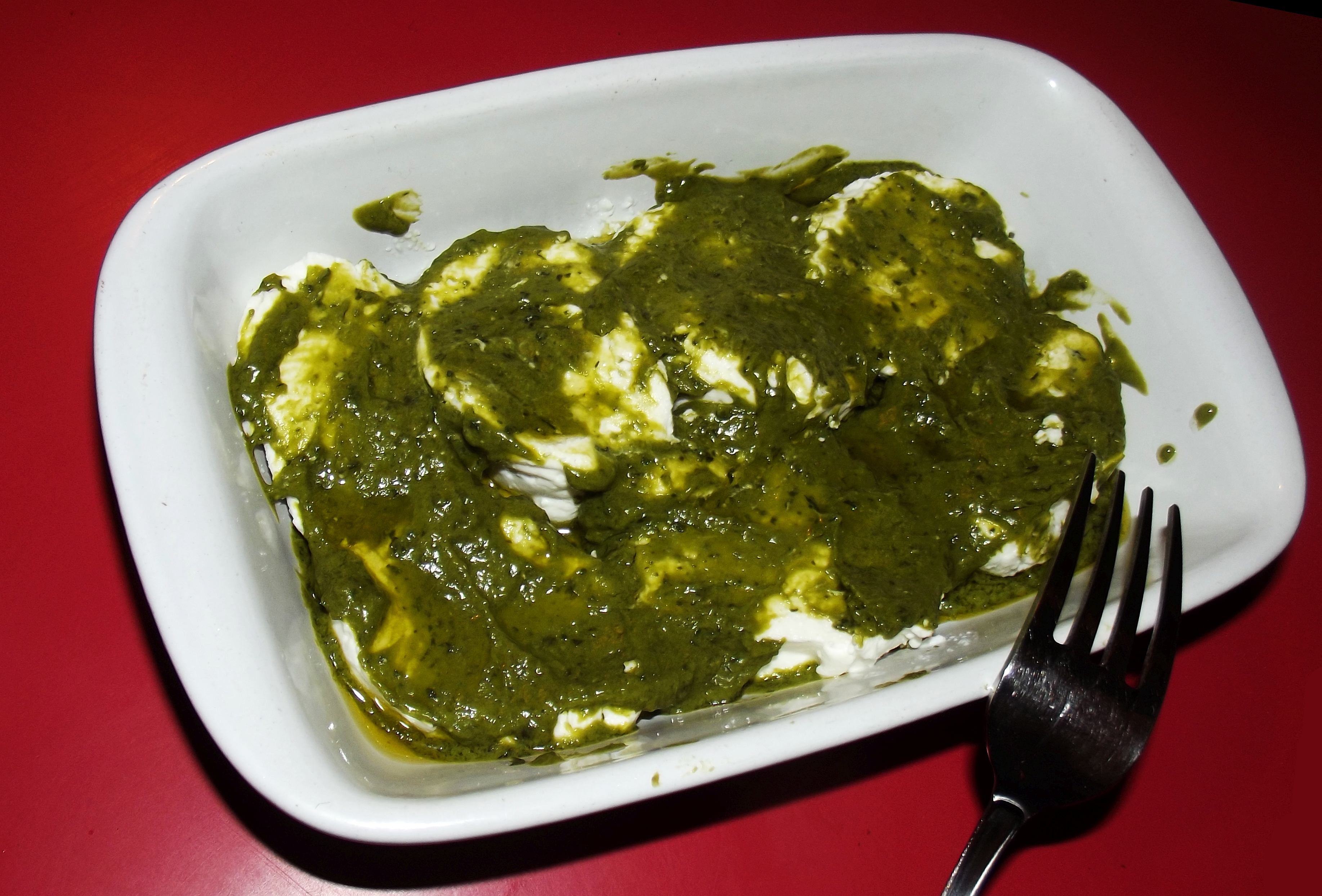 Green tomini (traditional piedmontese recipe)